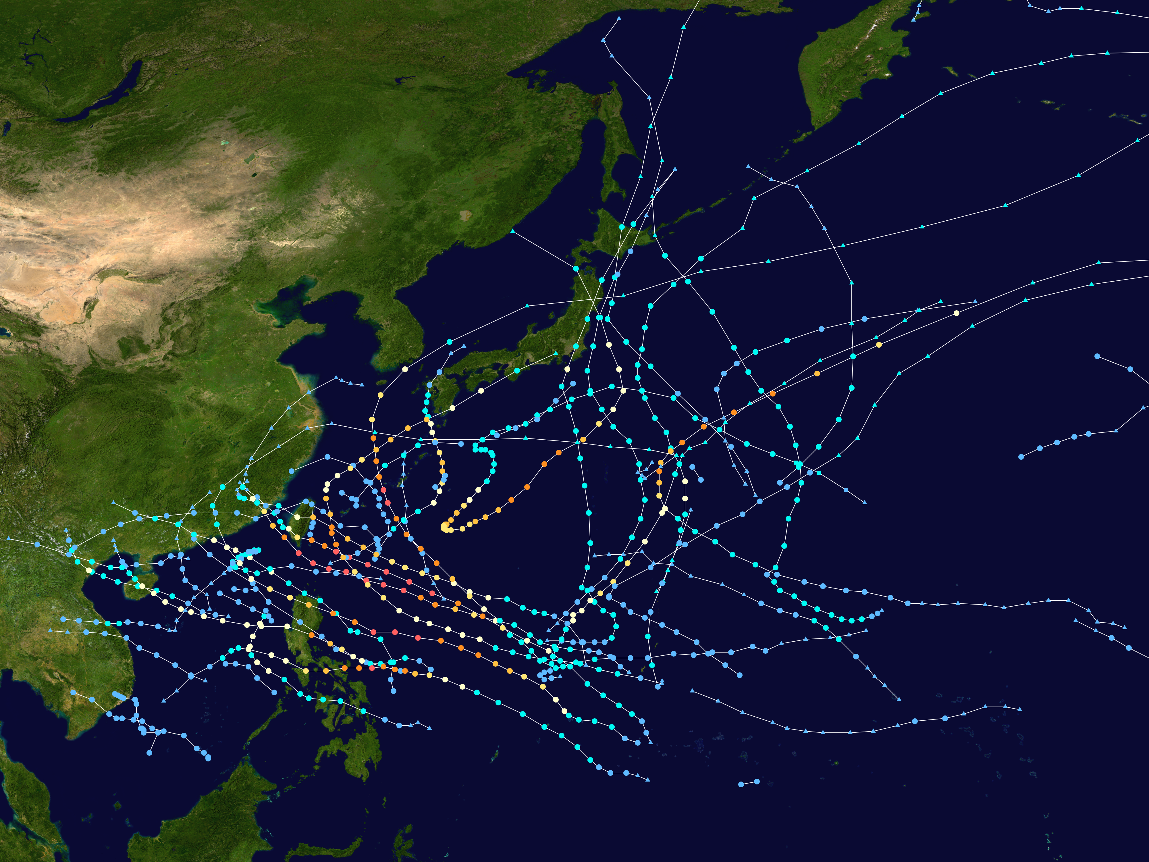 This map shows the tracks of all tropical cyclones in the 2016 Pacific typhoon season. The points show the location of each storm at 6-hour intervals. The colour represents the storm's maximum sustained wind speeds as classified in the Saffir-Simpson Hurricane Scale (see below), and the shape of the data points represent the type of the storm. Saffir–Simpson scale Tropical depression≤38 mph≤62 km/h Category 3111–129 mph178–208 km/h Tropical storm39–73 mph63–118 km/h Category 4130–156 mph209–251 km/h Category 174–95 mph119–153 km/h Category 5≥157 mph≥252 km/h Category 296–110 mph154–177 km/h Unknown Storm type Tropical cyclone Subtropical cyclone Extratropical cyclone / Remnant low / Tropical disturbance / Monsoon depression